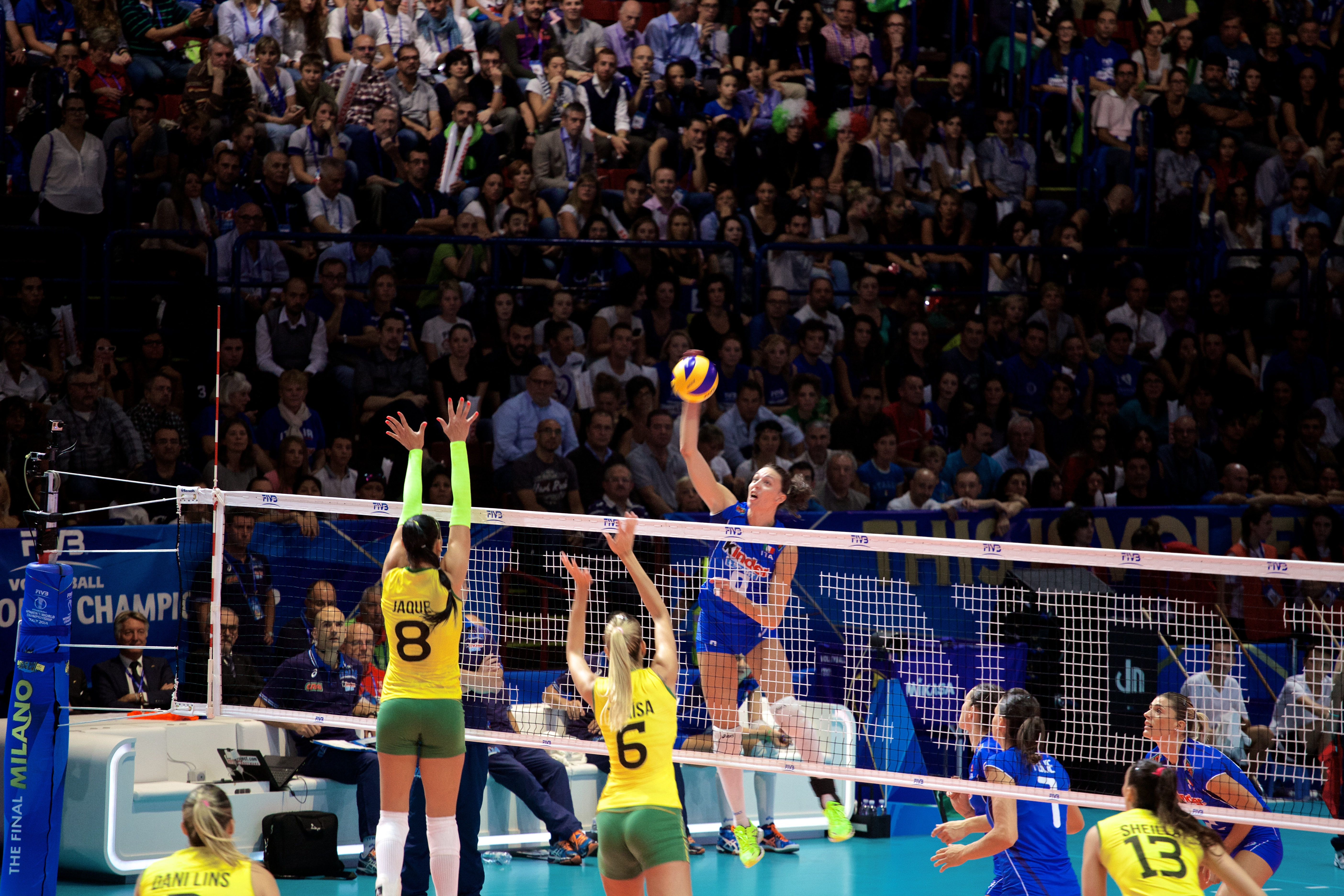 Canon EOS 5d MkII Canon EF 70-200mm f/4 L